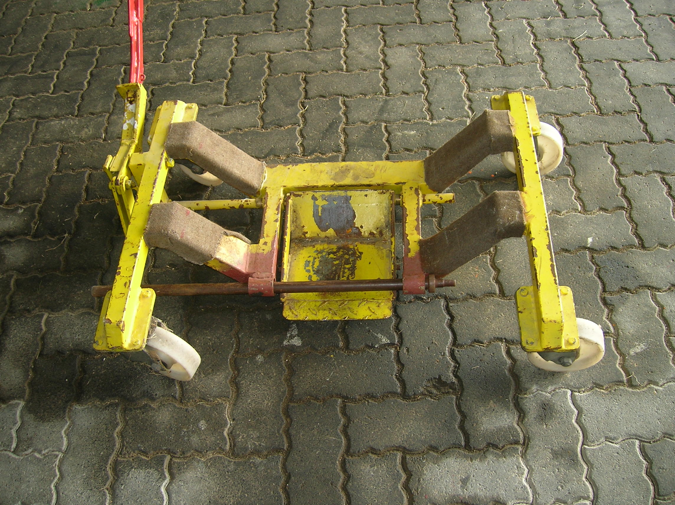 Gadget for better maneuvering of gliders in the hangar.